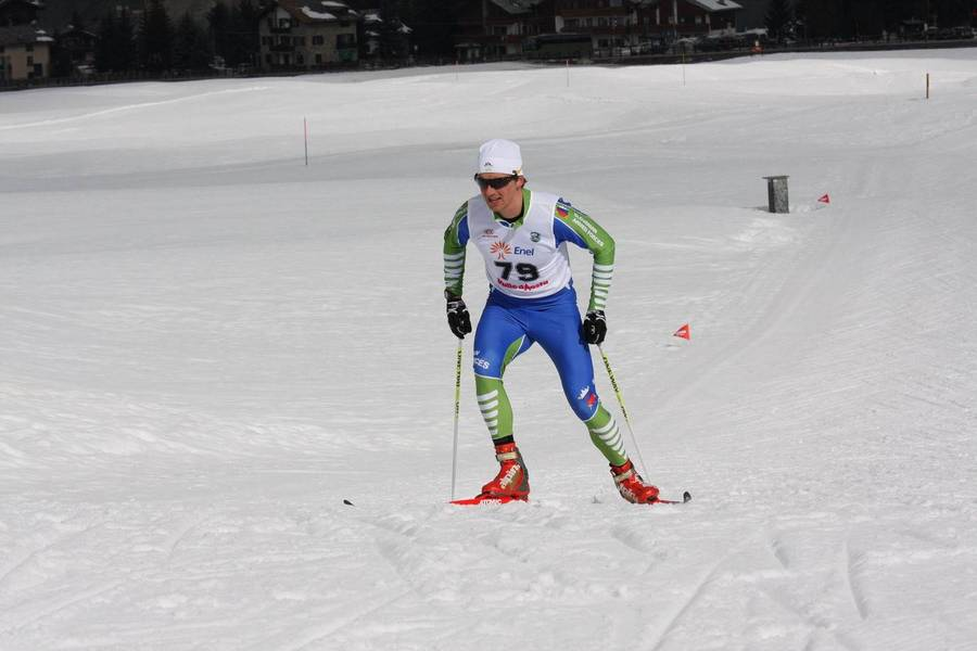 Peter Dokl at the 2010 Winter Military World Games